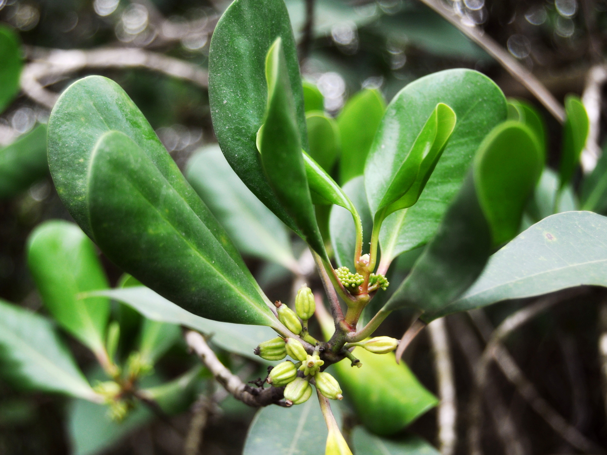 Scyphiphora hydrophylacea; fruiting twigs. From Pulau Laut, South Kalimantan, Indonesia.